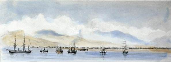 Chimbote, al norte del Perú, el lugar donde la expedición Lynch [desembarcó con 6 buques].